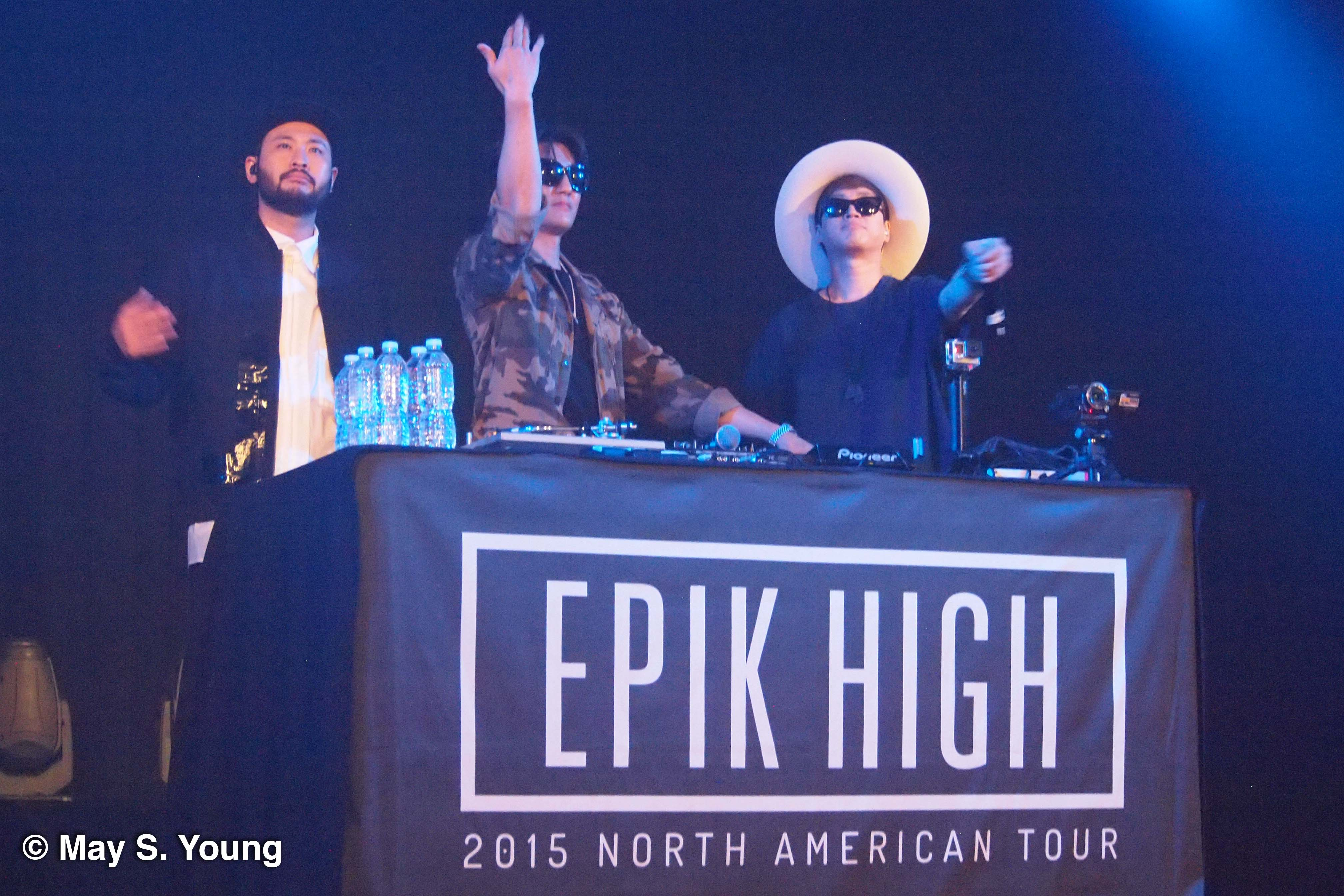 OLYMPUS DIGITAL CAMERA Epik High, Master Wu & DJ Soulscape at Best Buy Theater, New York City - 6/12/2015